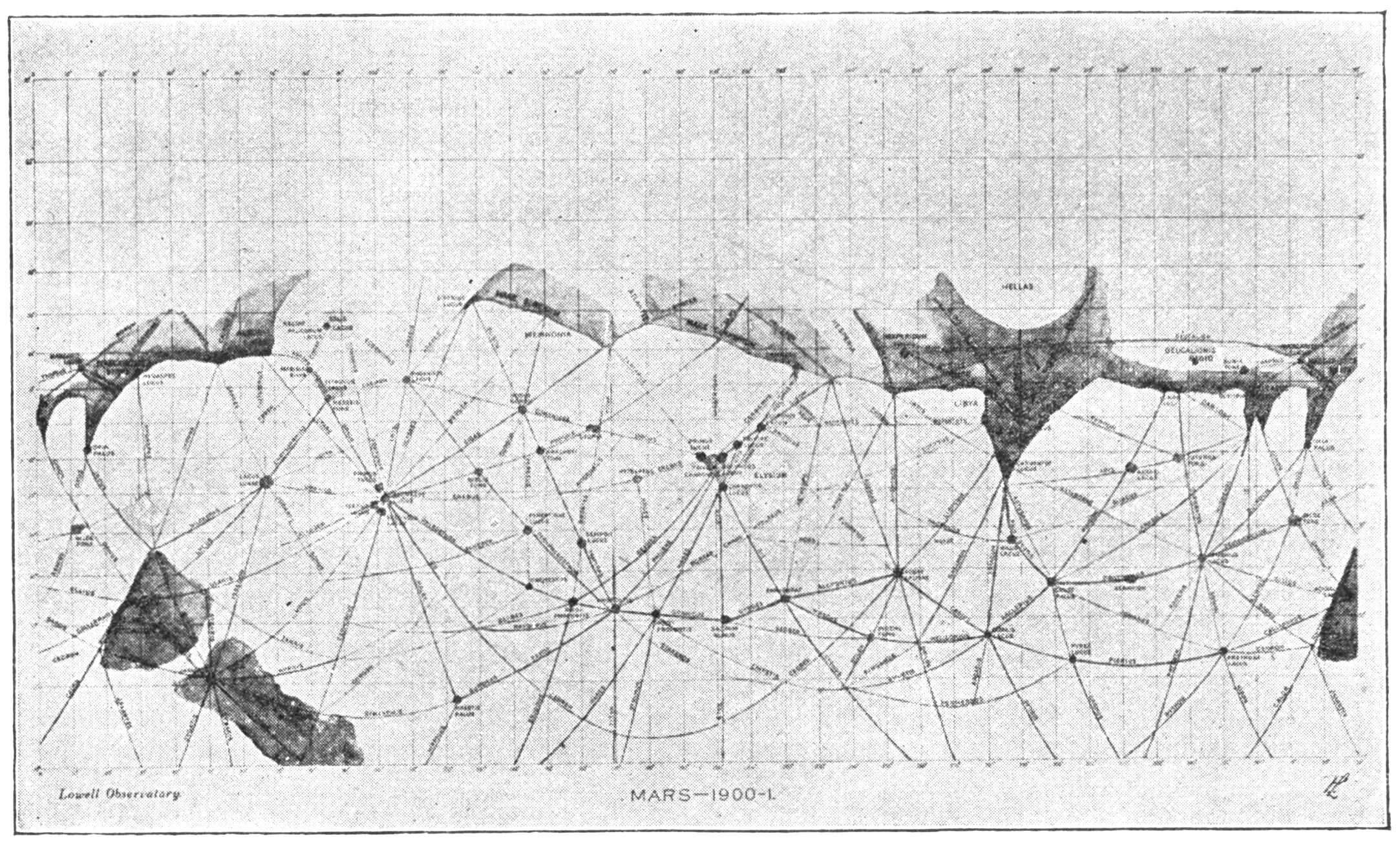 The Solar System - Lowell - Figure 8 - Map of Mars